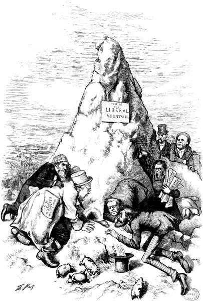 Political cartoon showing 1872 Liberal Republicans gathered around a mountain witnessing the birth of its candidate, a mouse labeled "H. G." (Horace Greeley, the candidate for president) with a tail labeled "Gratz Brown" (the vice-presidential candidate). The scene is apparently based on a quotation from Horace (Quintus Horatius Flaccus). Appeared in Harper's Weekly, May 18, 1872, p. 392